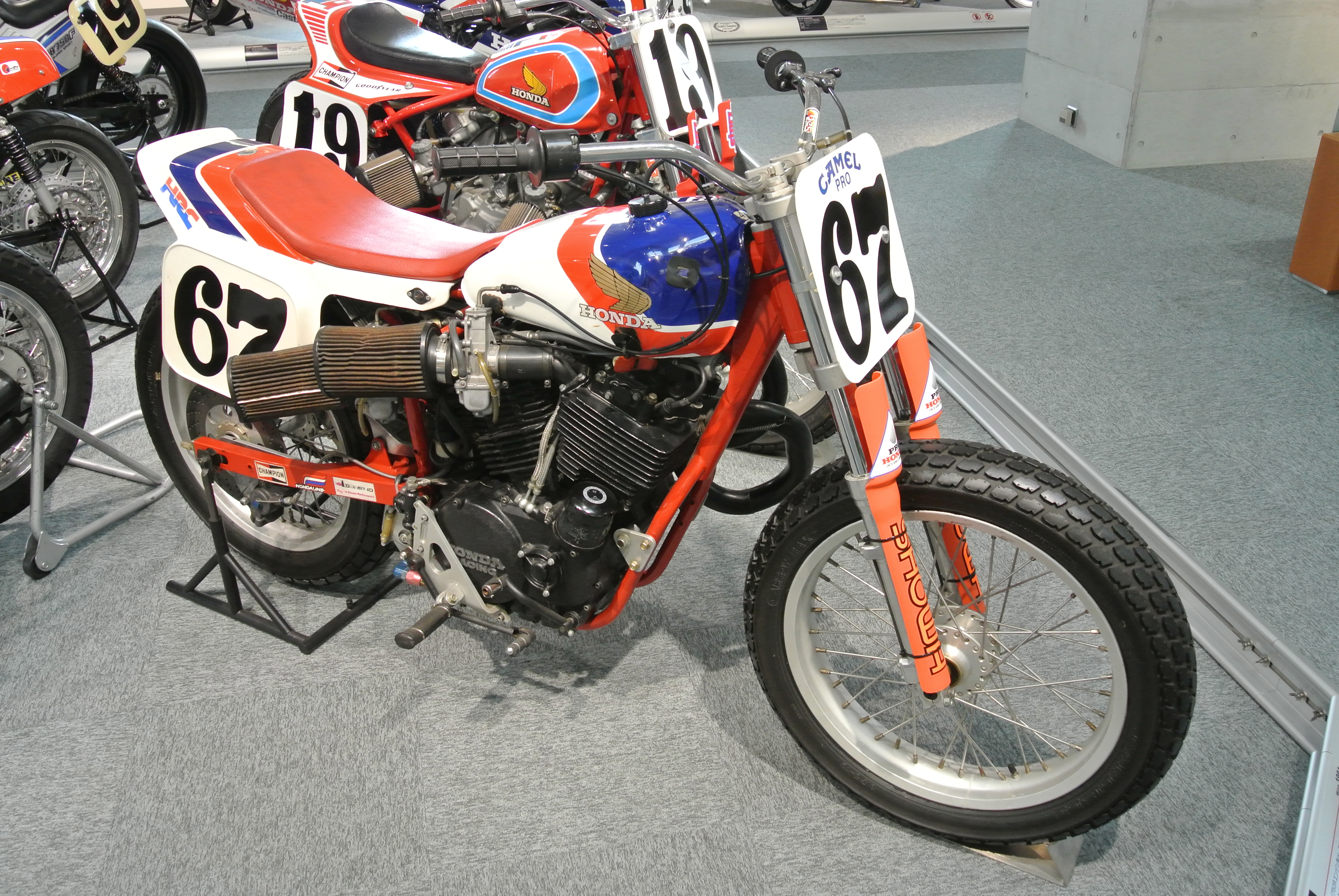 1984 RS750D in the Honda Collection Hall.